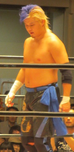 Japanese professional wrestler, Daichi Hashimoto. Sep 21 2015, BJW Korakuen Hall.